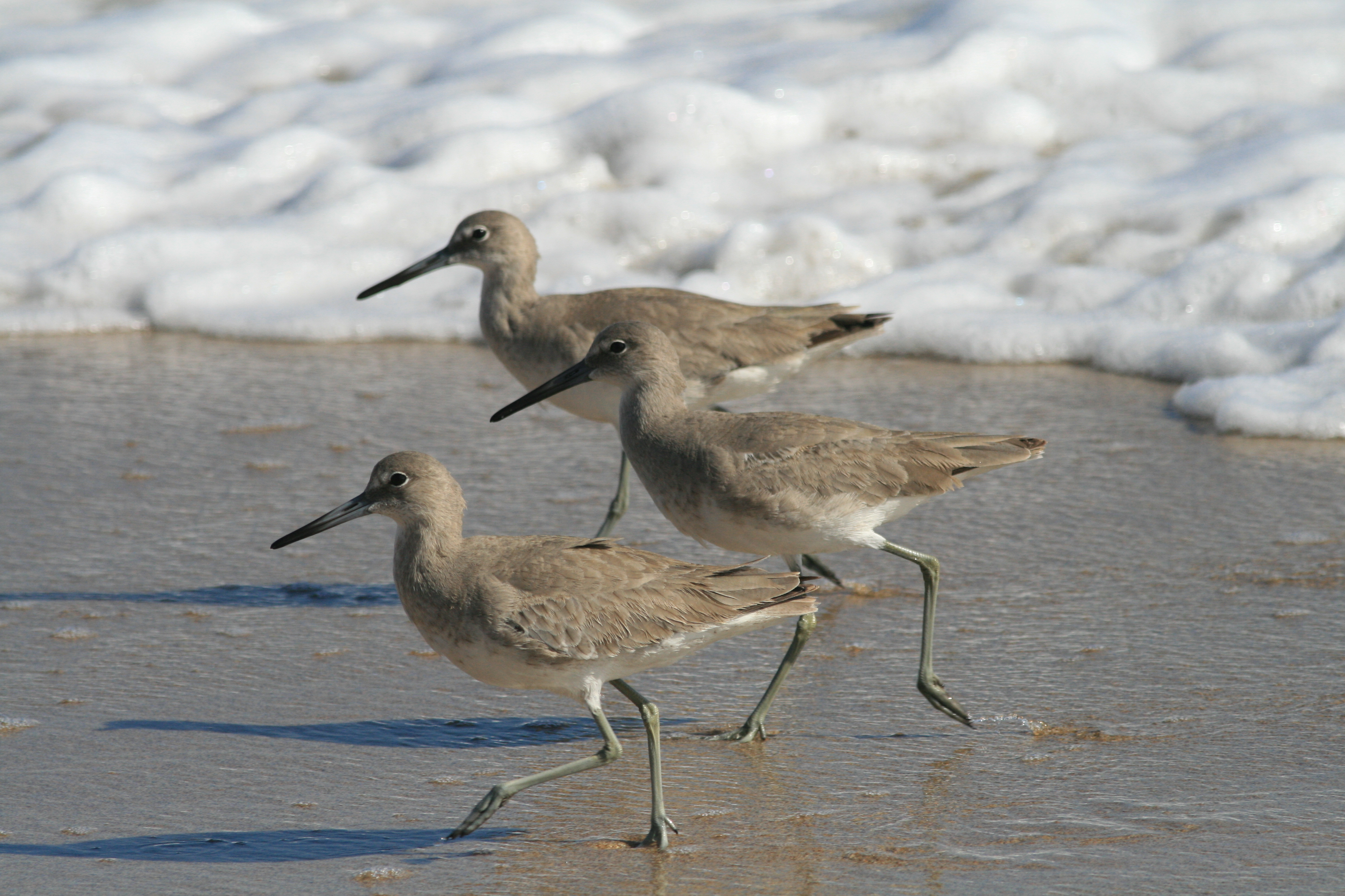 Willet on the beach, Florida.